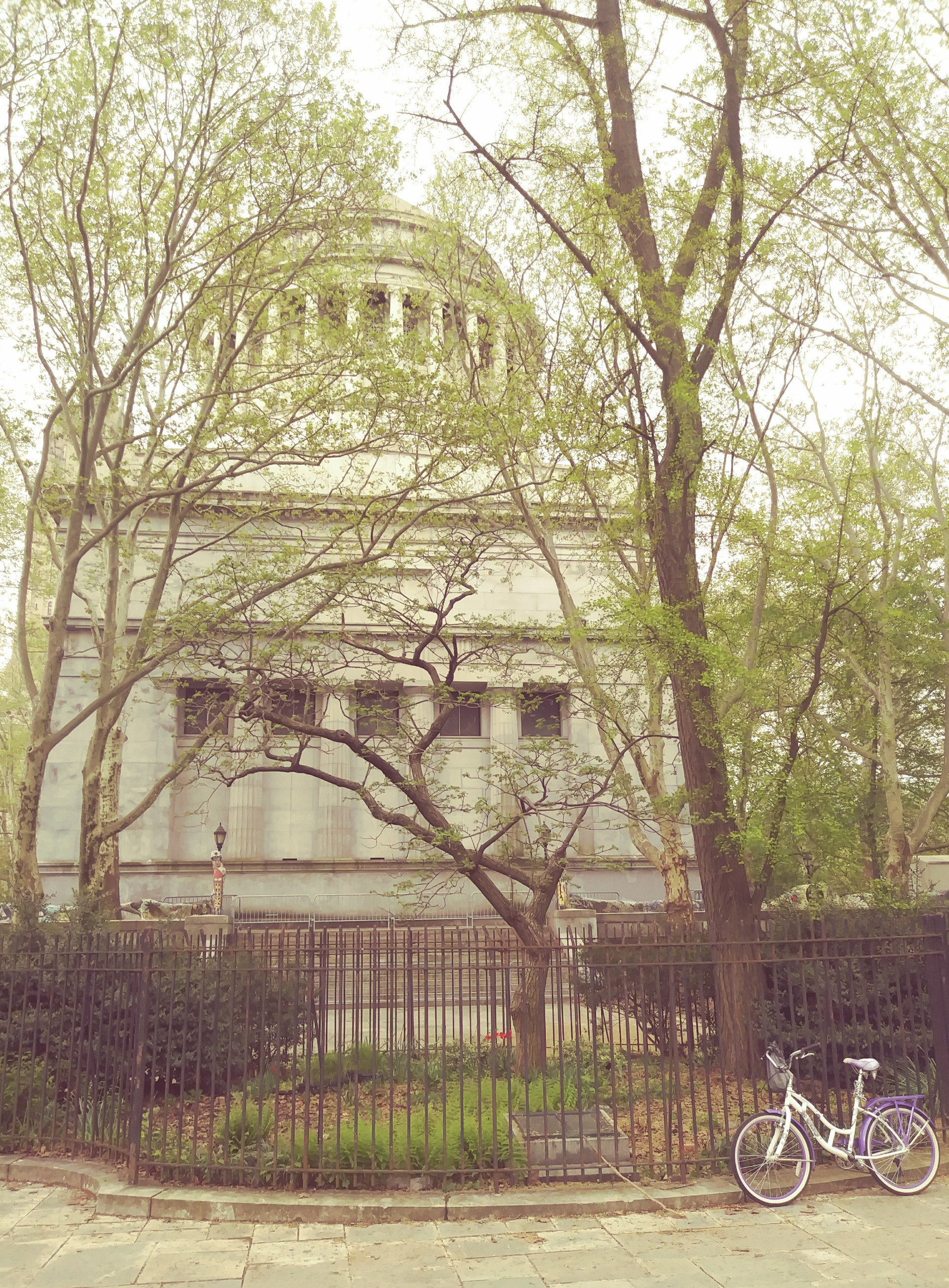 Back (north) side of Grant's Tomb